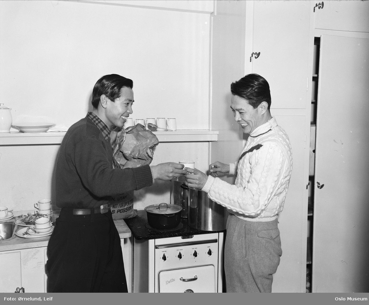 Japanese athletes at the Oslo Olympics